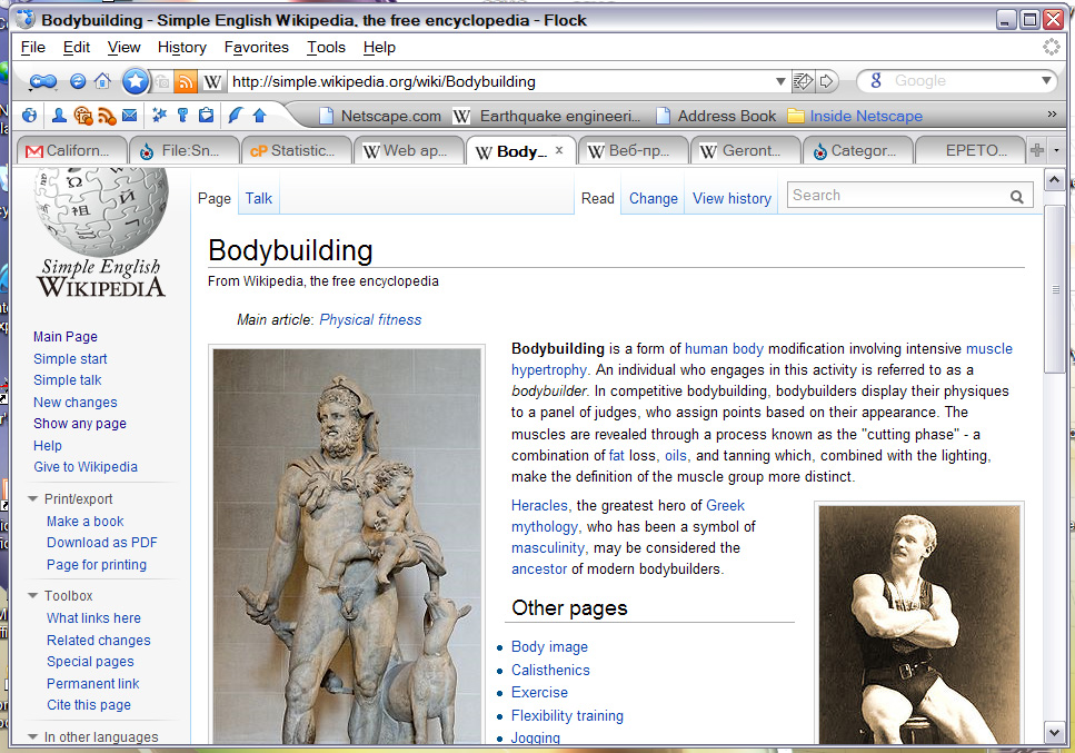 Print-Screen of Wikipedia page by Flock browser